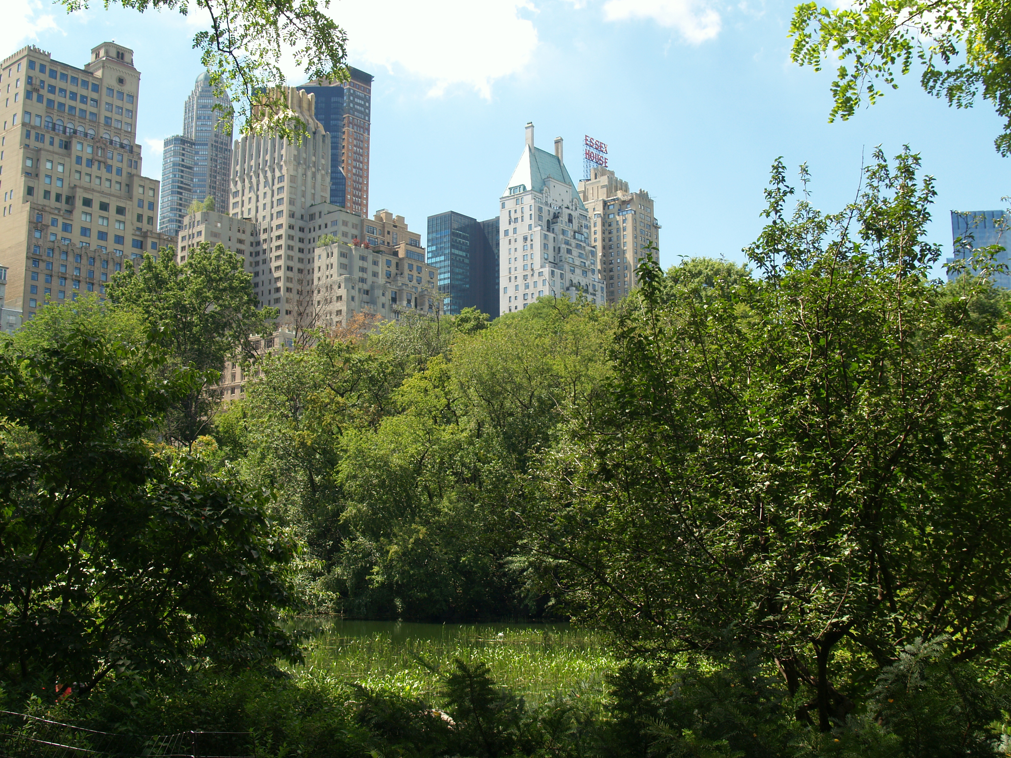 Lower Central Park at 1:00 p.m. Photographer's blog post about new photos of Central Park for Wikipedia.